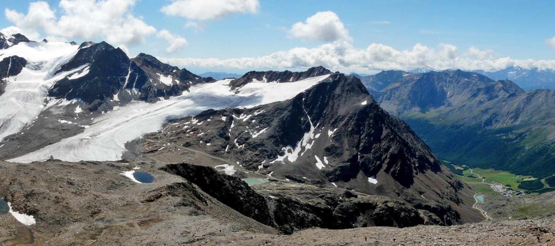 Graue Wand and Ski Resort Schnalstaler Gletscher, Kurzras from the peak Im Hinteren Eis